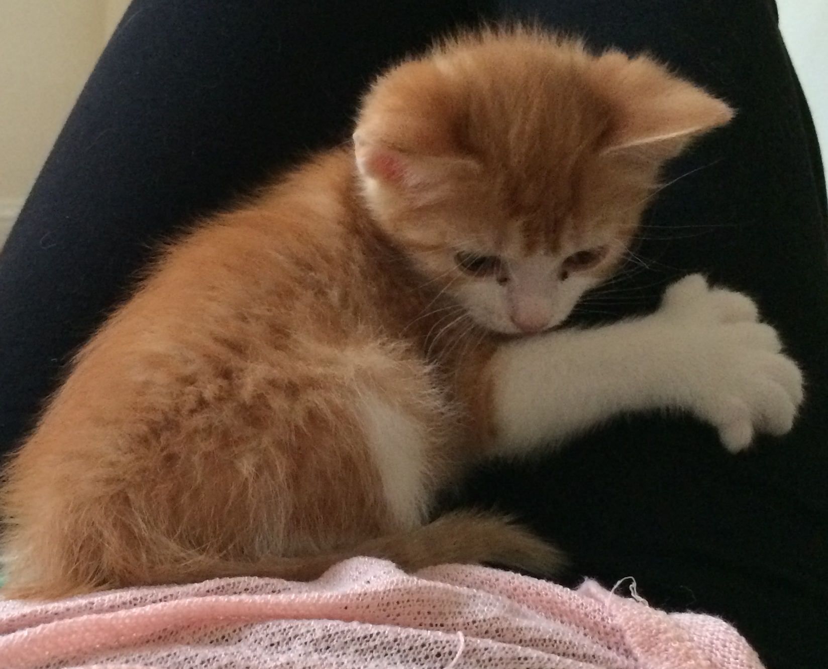 Red Maine Coon kitten with 8 toes on each front paw. This kitten has 28 toes total (16 in front, 12 in back). This is an example of a polydactyl kitten